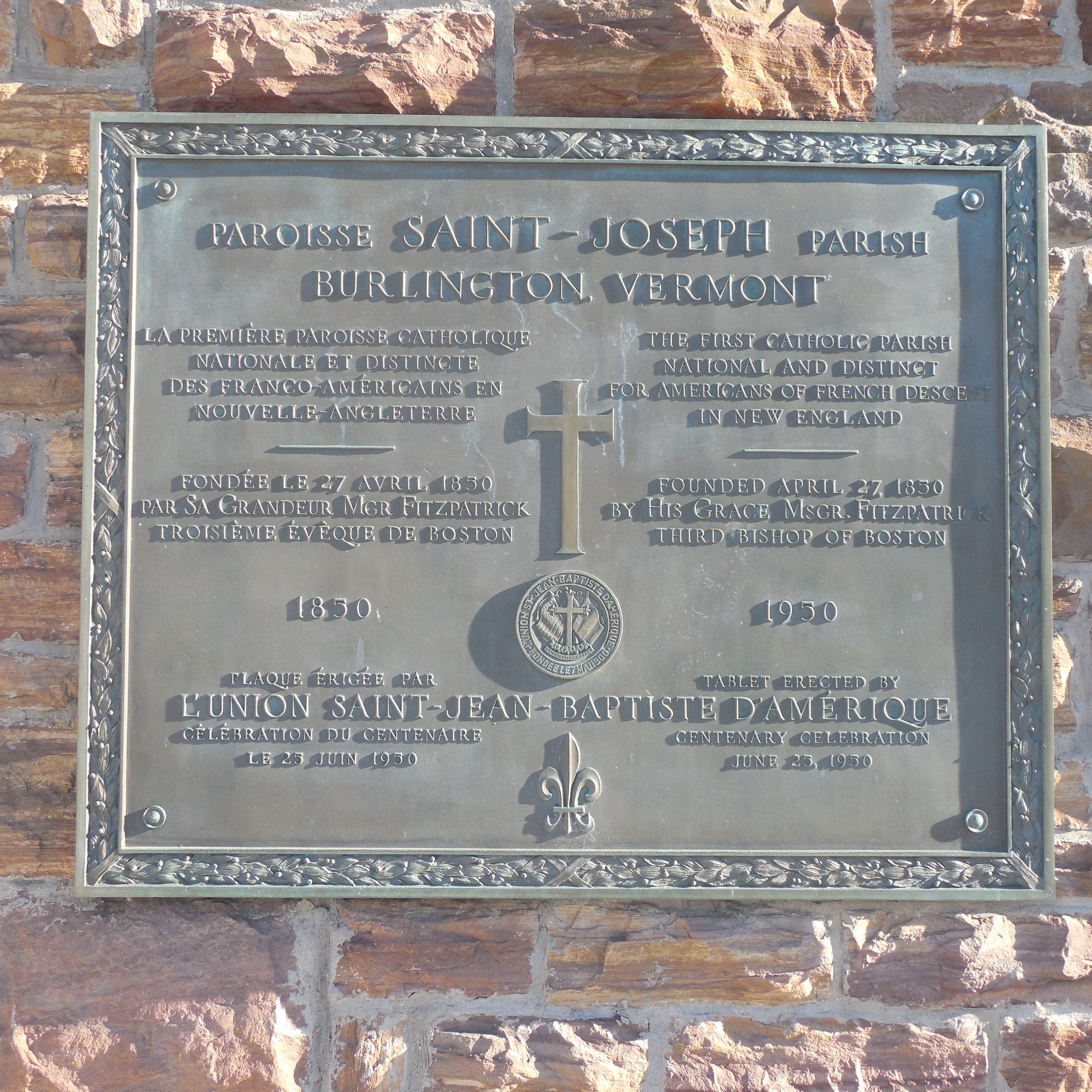 Tablet of the Co-Cathedral of Saint Joseph on Allen St. in the "Old North End" of Burlington, Vermont (9 Aug 2015)